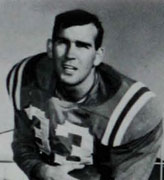 A black & white low resolution rendering of a publicity photograph of Jim Holder in his Panhandle A&M football uniform holding a football.